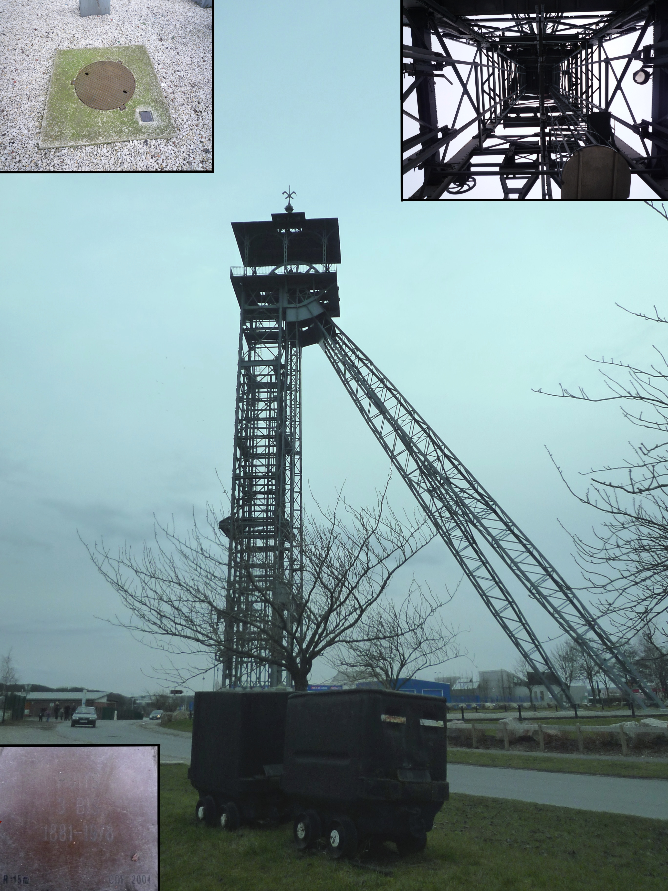 Pit n° 3 bis, Compagnie des mines de Lens, Liévin, Pas-de-Calais, Nord-Pas-de-Calais, France.